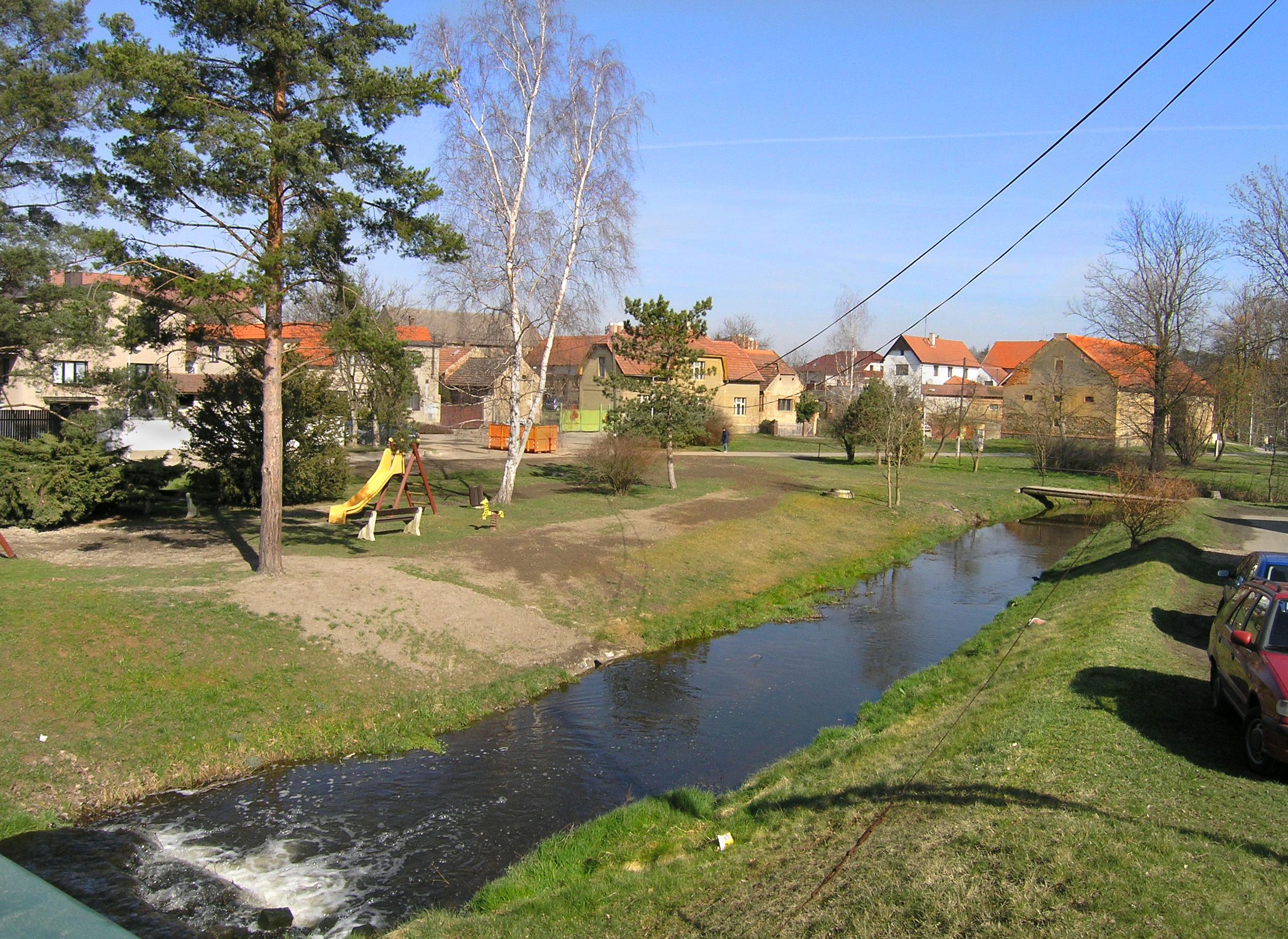 Botič Creek at Křeslice, Prague